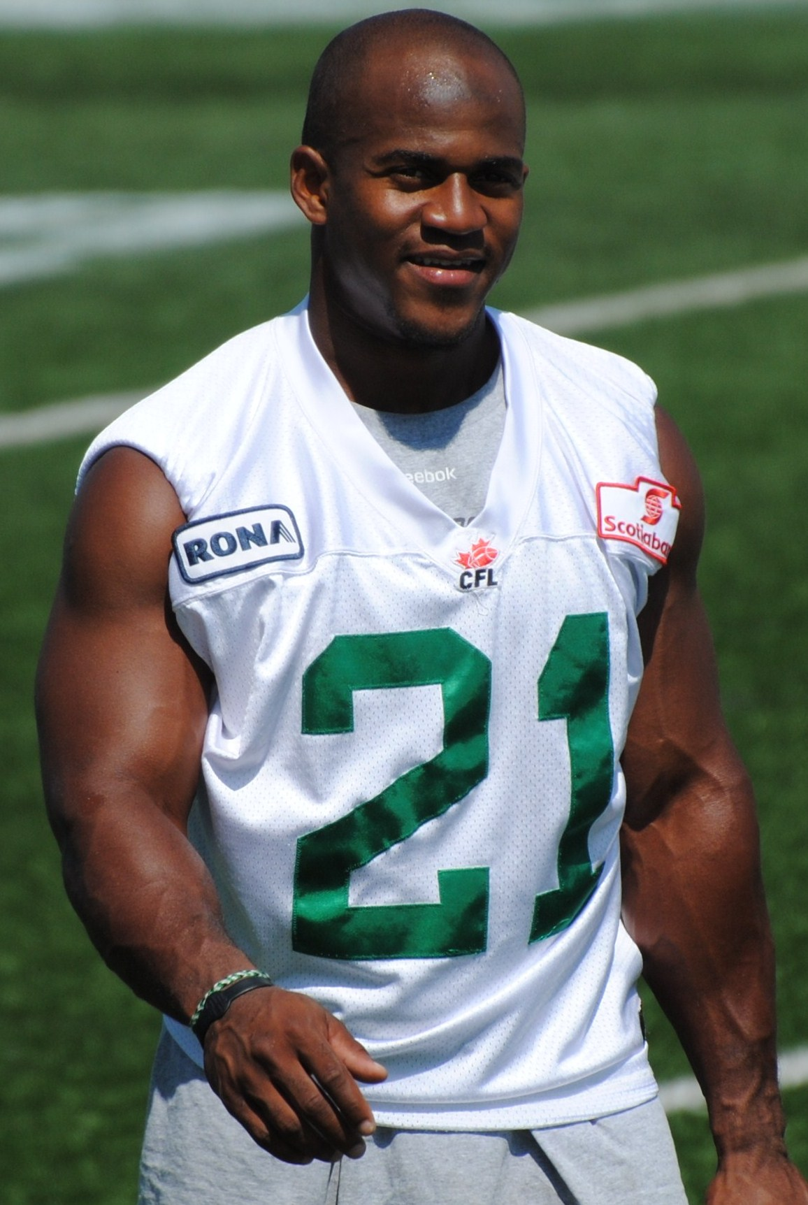 Hugh Charles walks off the field after a Saskatchewan Roughriders practice.